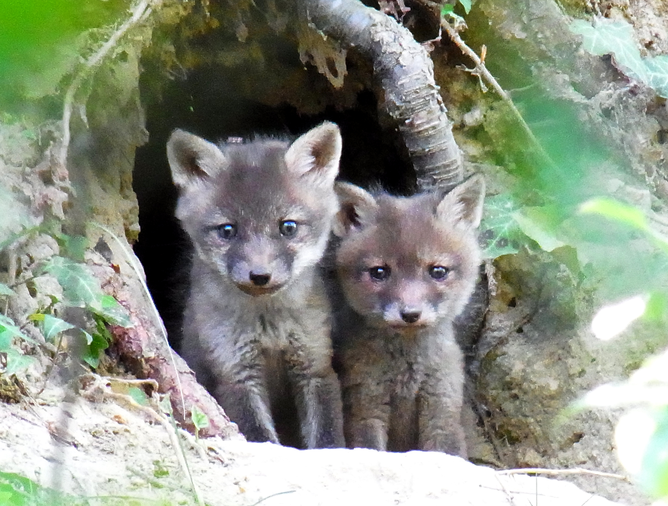 Two youngsters of Vulpes vulpes in front of burrow entrance in Western Hungary at 2012--04-28